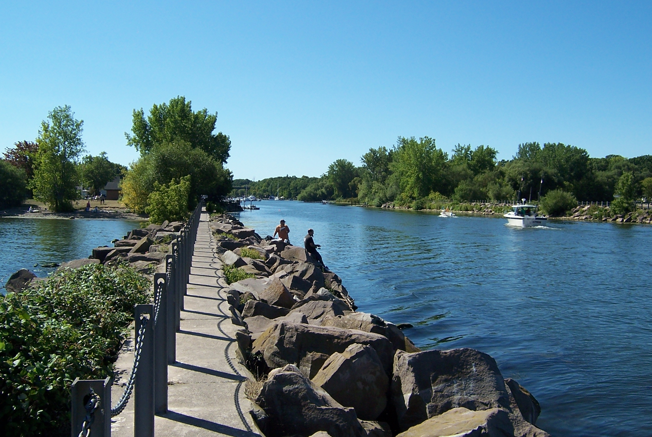 The mouth of the Oak Orchard River in the town of Carlton, Orleans County, New York. The promontory from which this pier extends is known as Point Breeze. Lake Ontario is to the left and behind the camera. The camera is facing roughly south-southwest, upstream. The overpass in the distance carries the Lake Ontario State Parkway over the river.